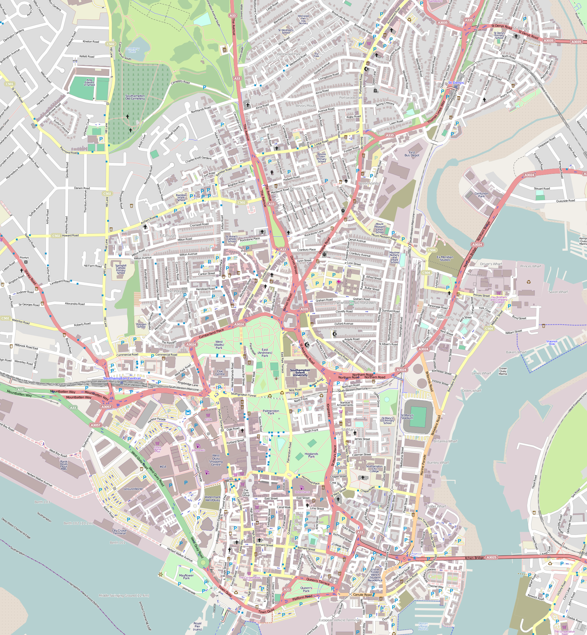 Map of Southampton Central Geographic limits: N: 50.9265° S: 50.895° W: -1.4238° E: -1.3776°